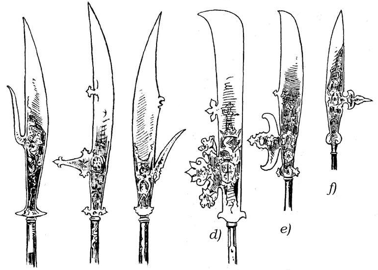 Glaives